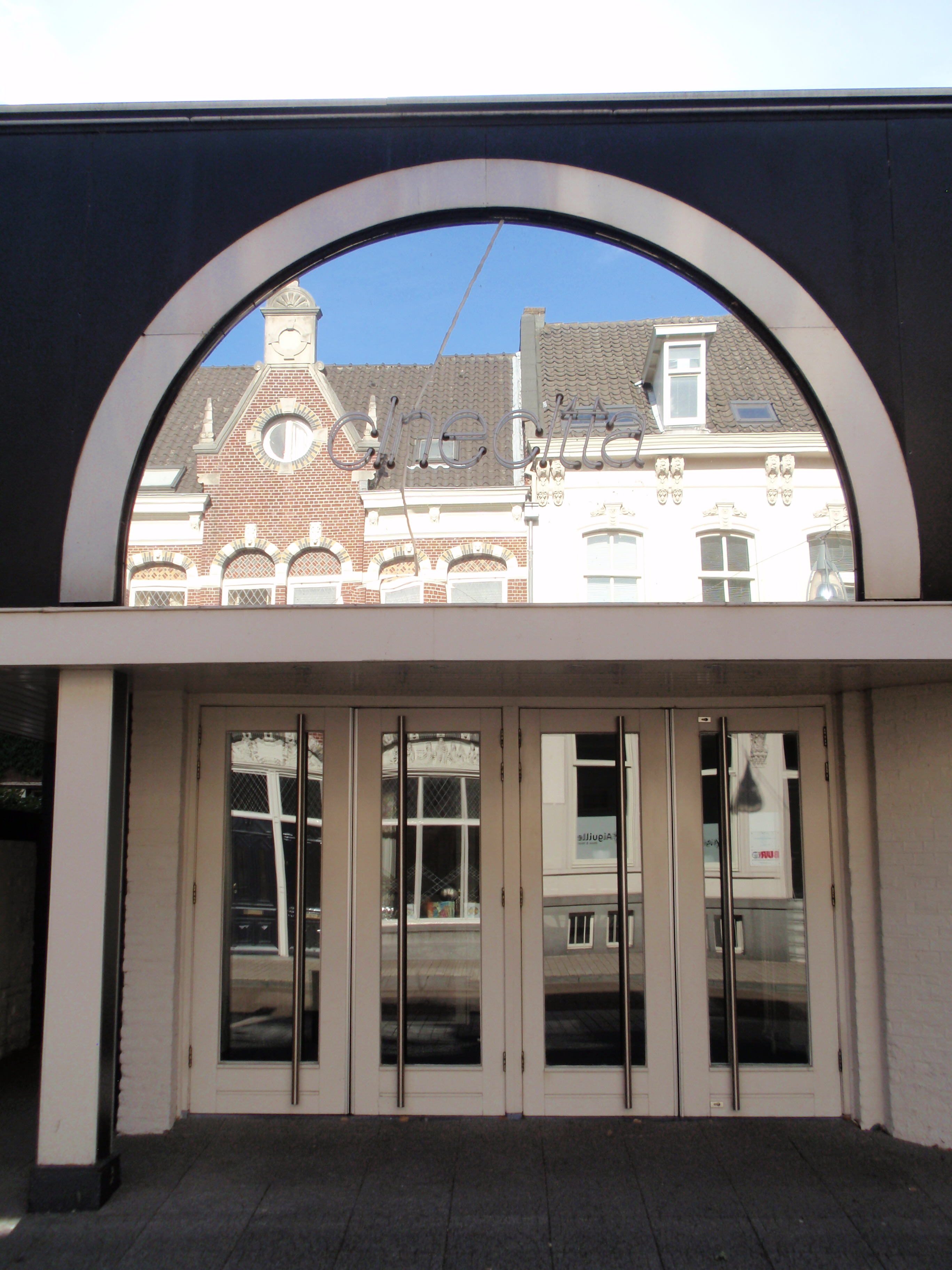 Cinecitta movie theatre Tilburg